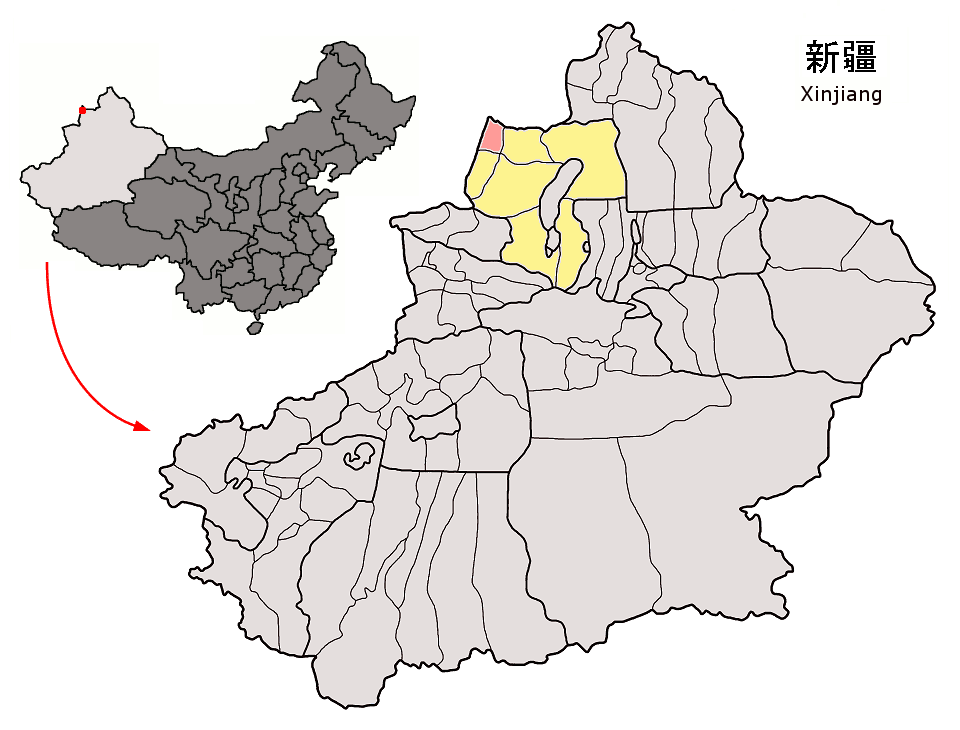 Location of Tacheng City (pink) and Tacheng Prefecture (yellow) within Xinjiang autonomous region of China Map drawn in september 2007 using various sources, mainly : Xinjiang Uygur autonomous region administrative regions GIS data: 1:1M, County level, 1990 Xinjiang Counties map from